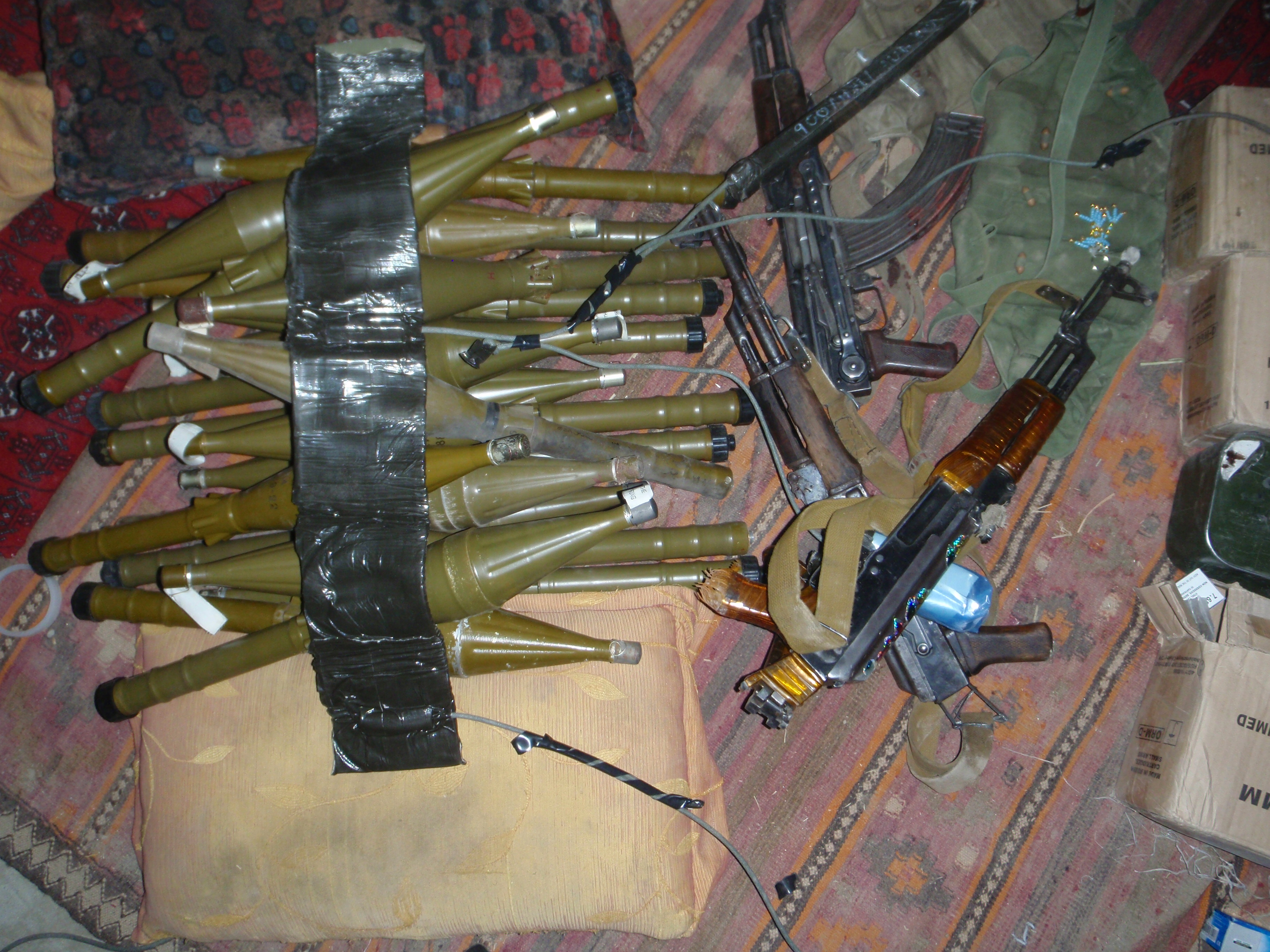 An Afghan and coalition security force found multiple automatic weapons along with dozens of rocket propelled grenades (RPGs), RPG boosters, hand grenades, and 2000 rounds of ammunition during an offensive security operation in Nangarhar last night. The security force was in pursuit of the primary Taliban facilitator for foreign fighters and attacks against high interest targets within eastern Afghanistan. (DoD photo)